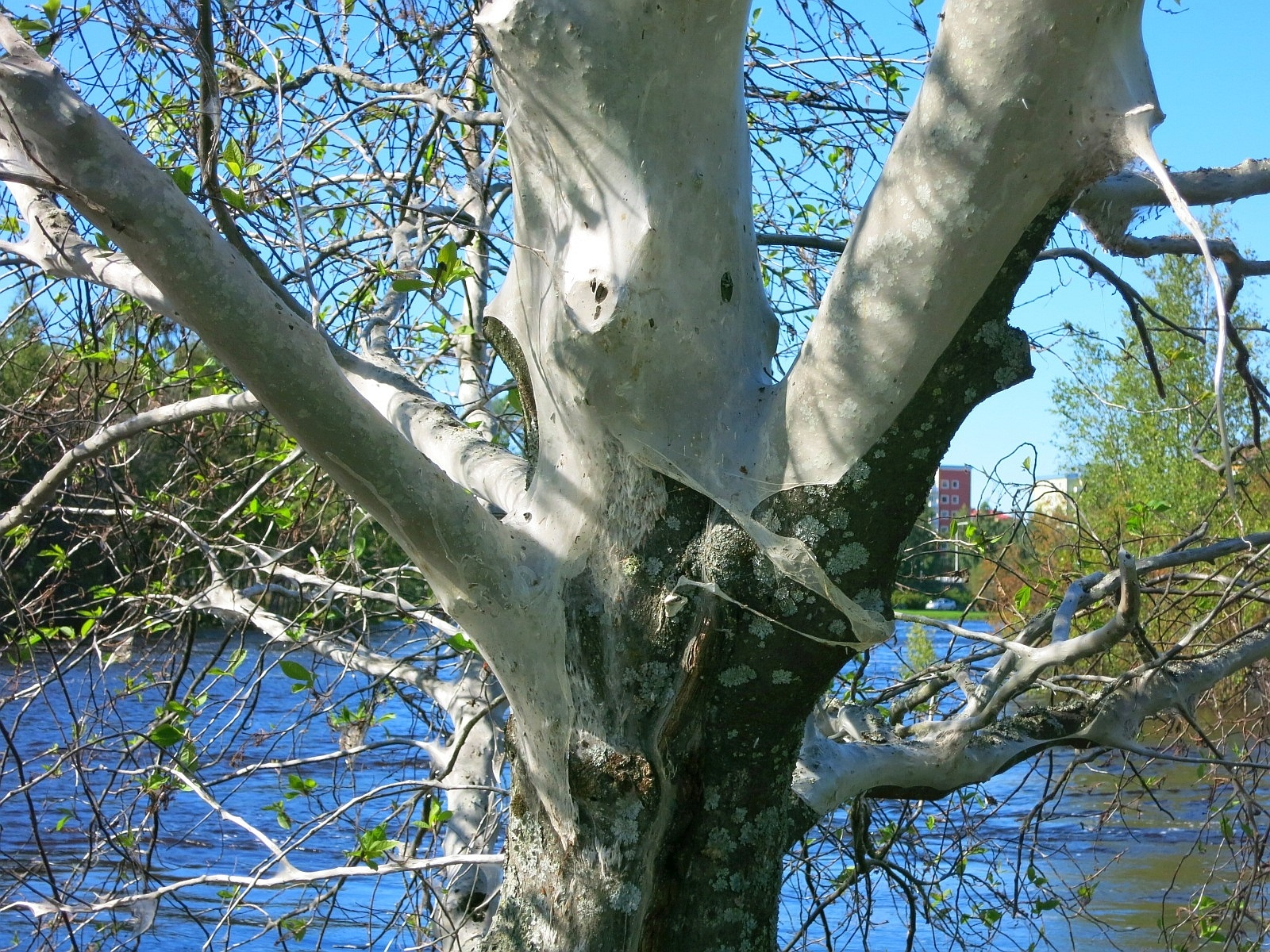 Net of Yponomeuta evonymella on branches of Prunus padus in Oulu (Finland)